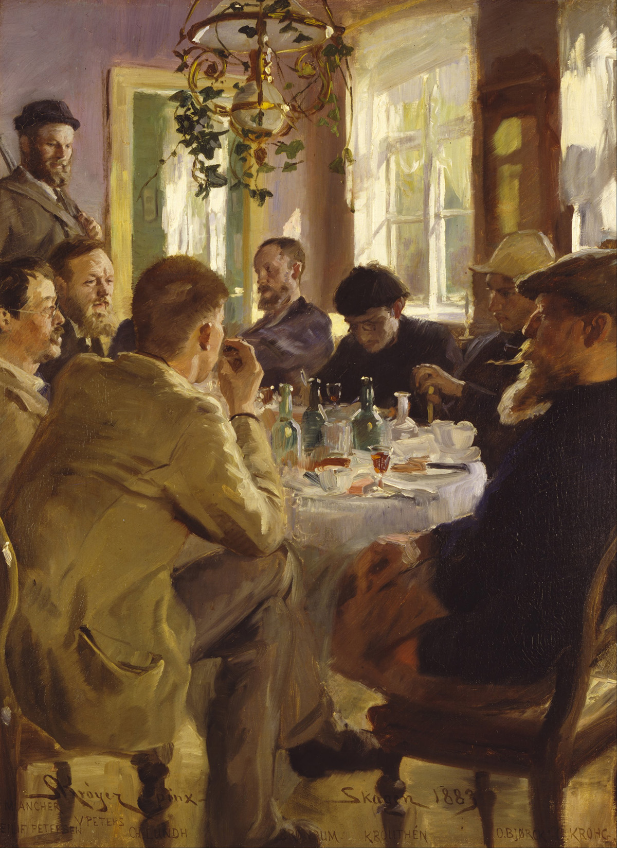 Picture shows some of the Skagen Painters eating lunch at Brøndum's Hotel in 1883. The figures are (from the left) Eilif Petersen, Michael Ancher (standing), Wilhelm Peters, Charles Lundh, Degn Brøndum, Johan Krouthén, Oscar Björck and Christian Krohg.